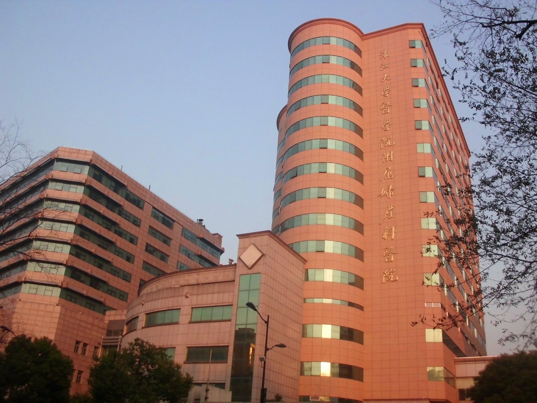 Women's Hospital of Zhejiang University